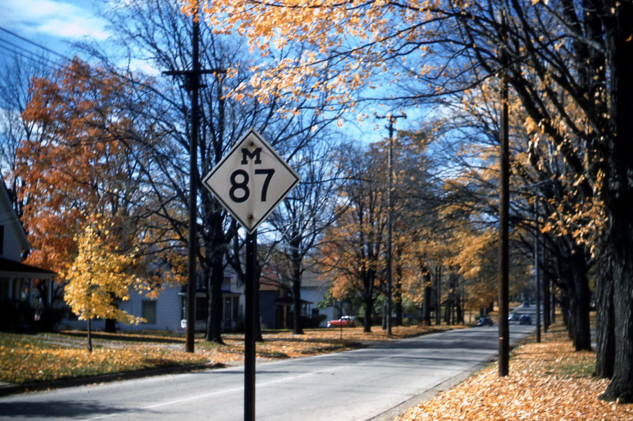 An M-87 marker in Fenton, Michigan.